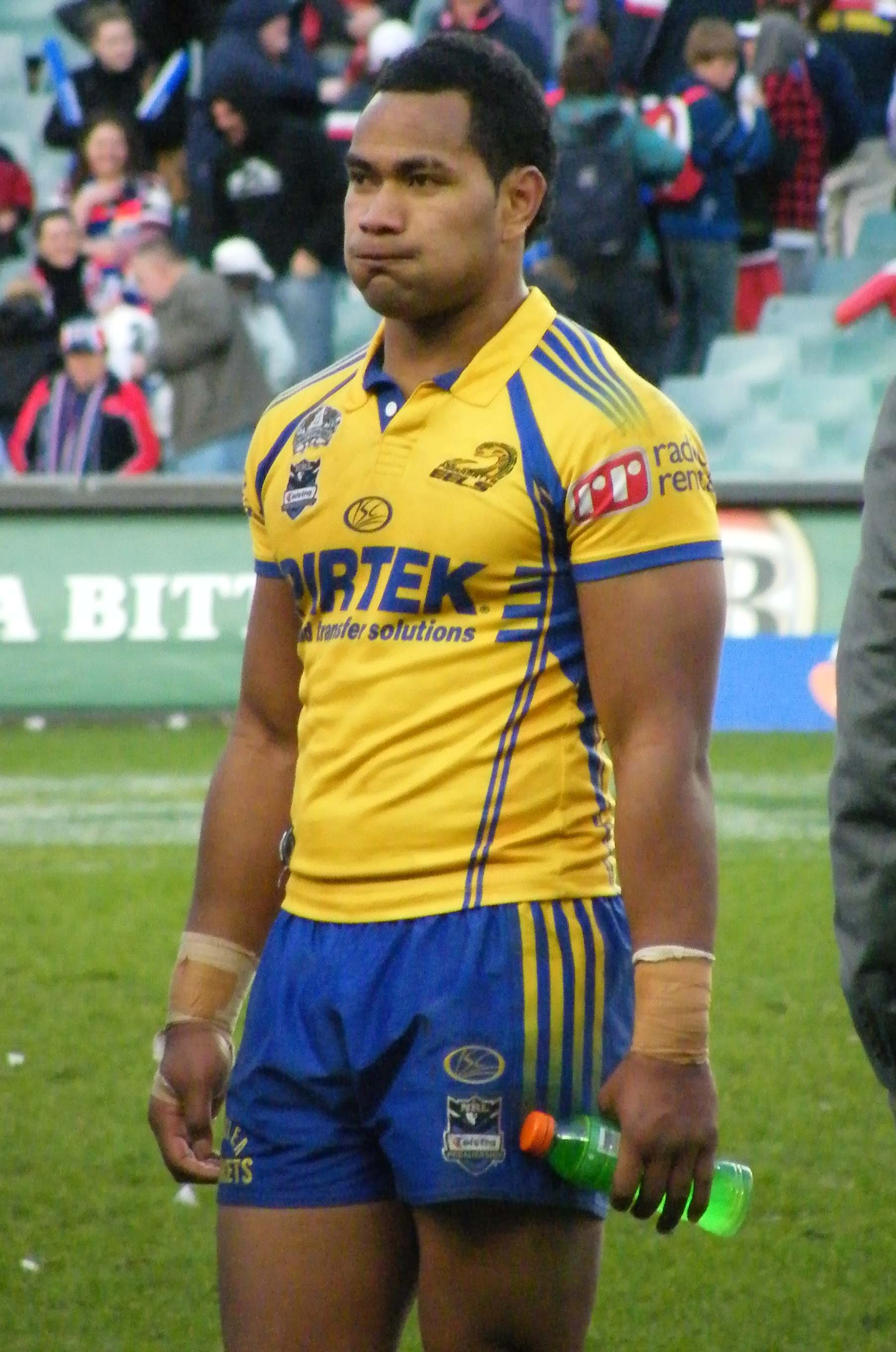 Parramatta Eels winger Tony Williams.